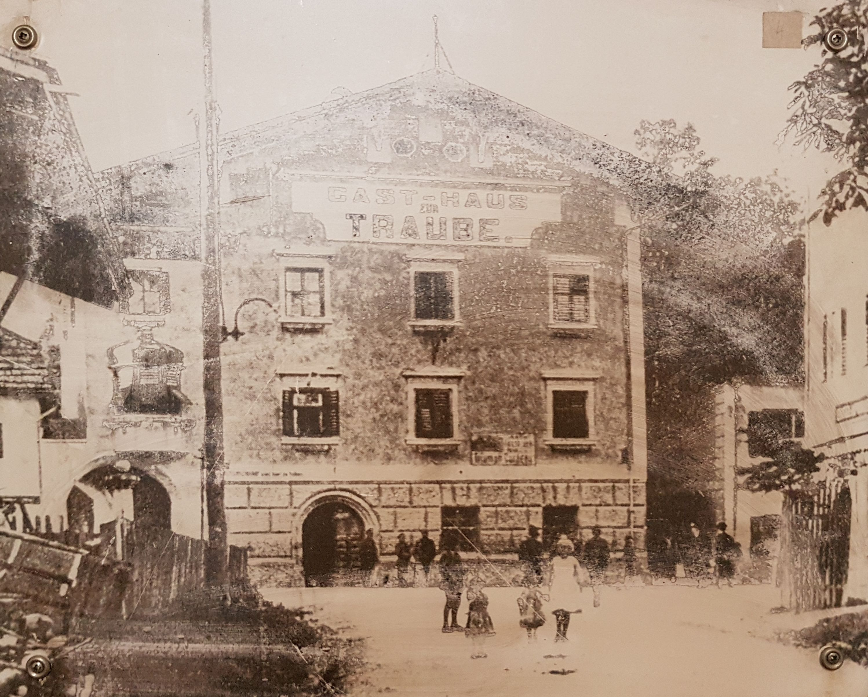 Gasthaus zur Traube (Inn) in Telfs in Tyrol. Here on September 28, 1890, the country organization of socialists (SDAP) was founded for Tyrol and Vorarlberg. Exhibition of Volkshilfe Vorarlberg.